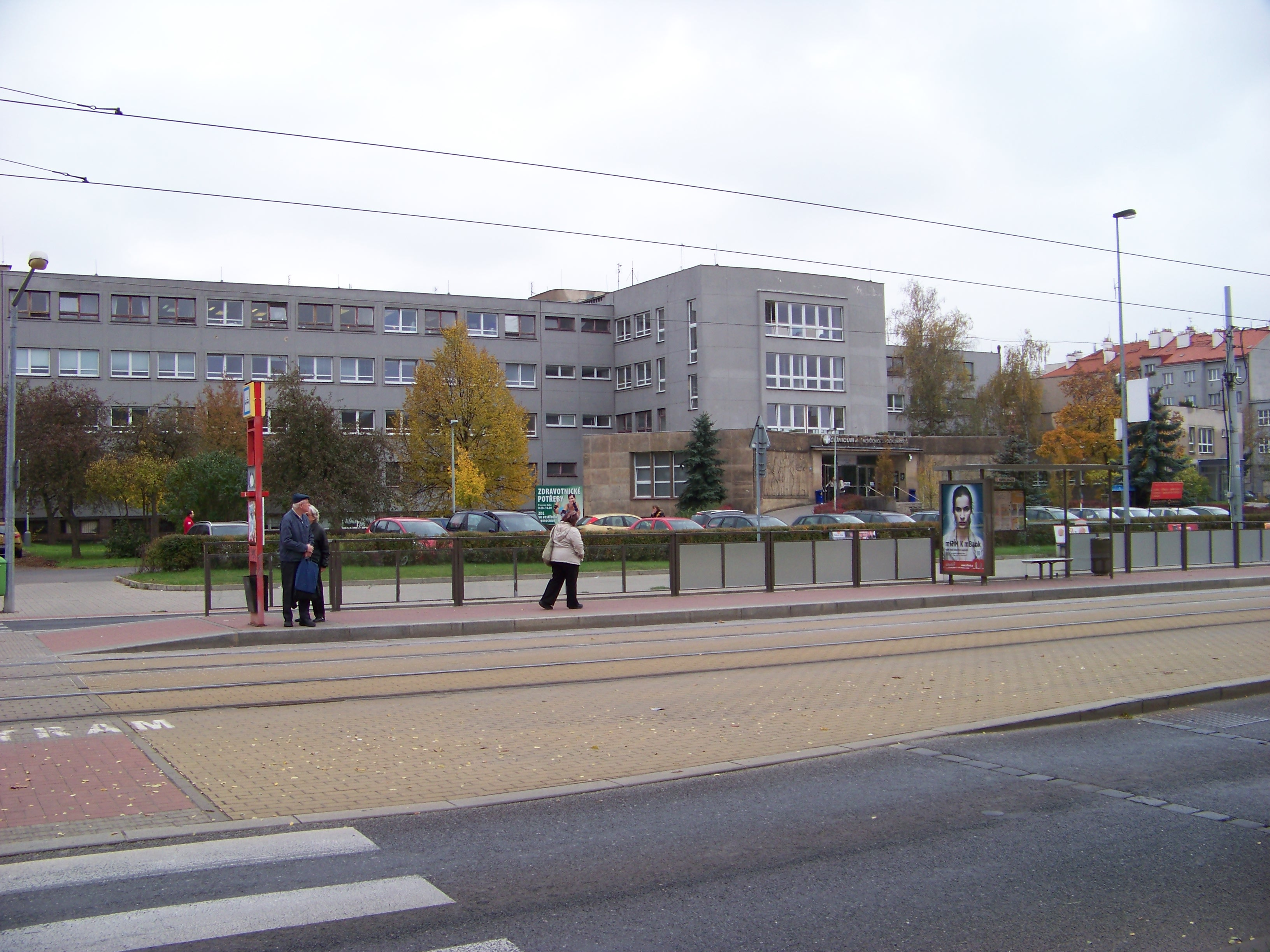 Prague-Vysočany, the Czech Republic. Sokolovská 810/304, a policlinic.